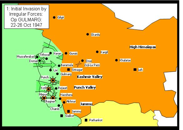 Author Mike Young